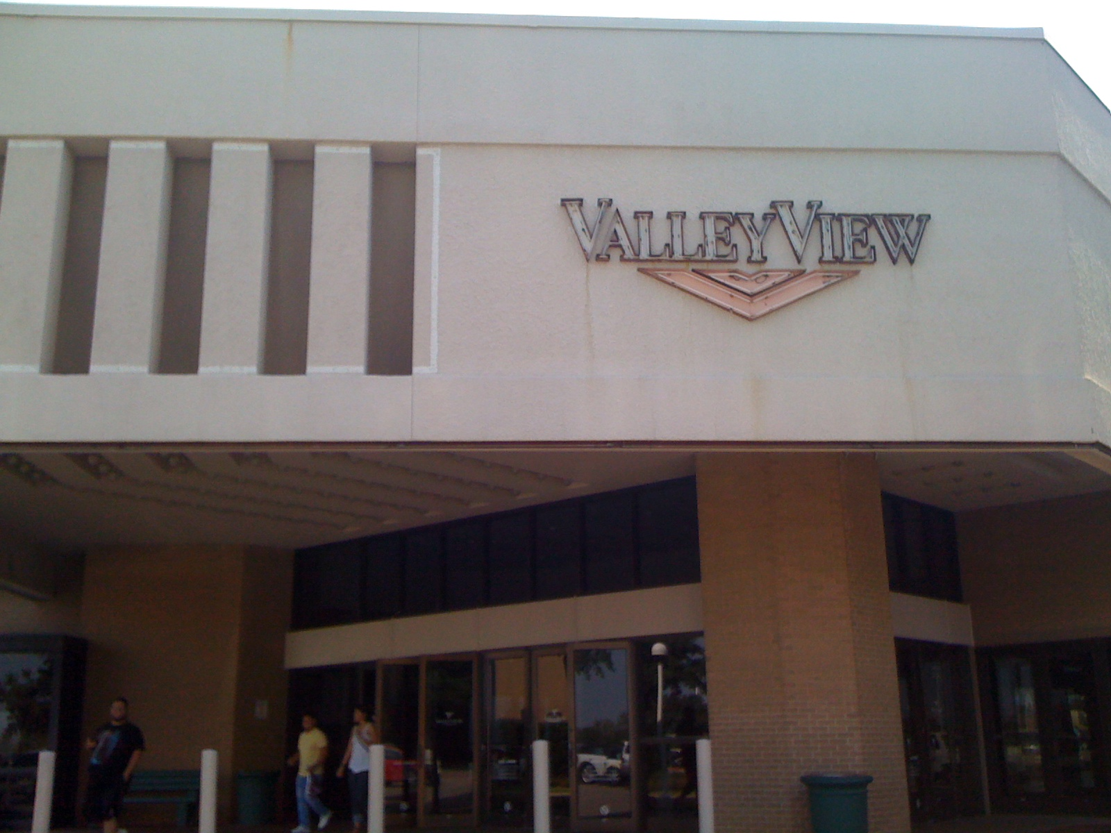 The north entrance to the Valley View Center super-regional shopping mall in Dallas, Texas. Located between the Sears and JC Penney anchors, this is the primary entrance for accessing the AMC 16-screen movie theater inside the mall.